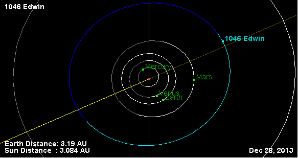 This diagram illustrates the orbit of the Main-belt asteroid 1046 Edwin.